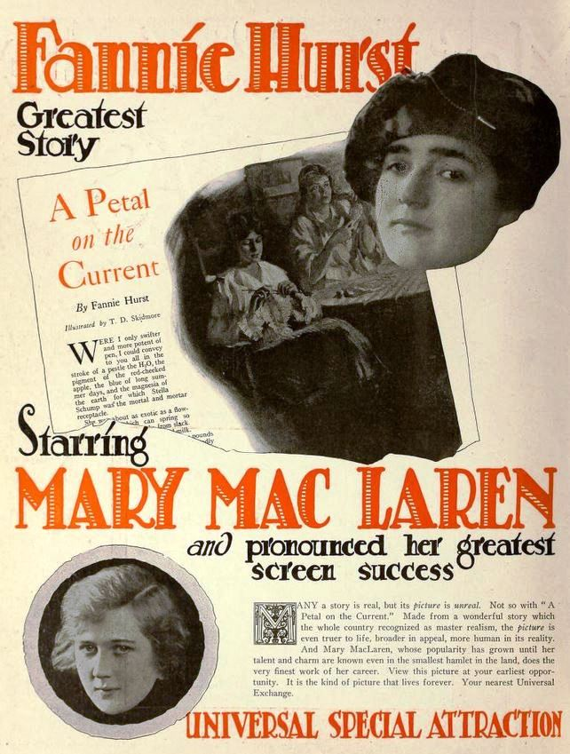 Ad for the American film The Petal on the Current (1919) with Mary MacLaren, on page 610 of the July 19, 1919 Motion Picture News.